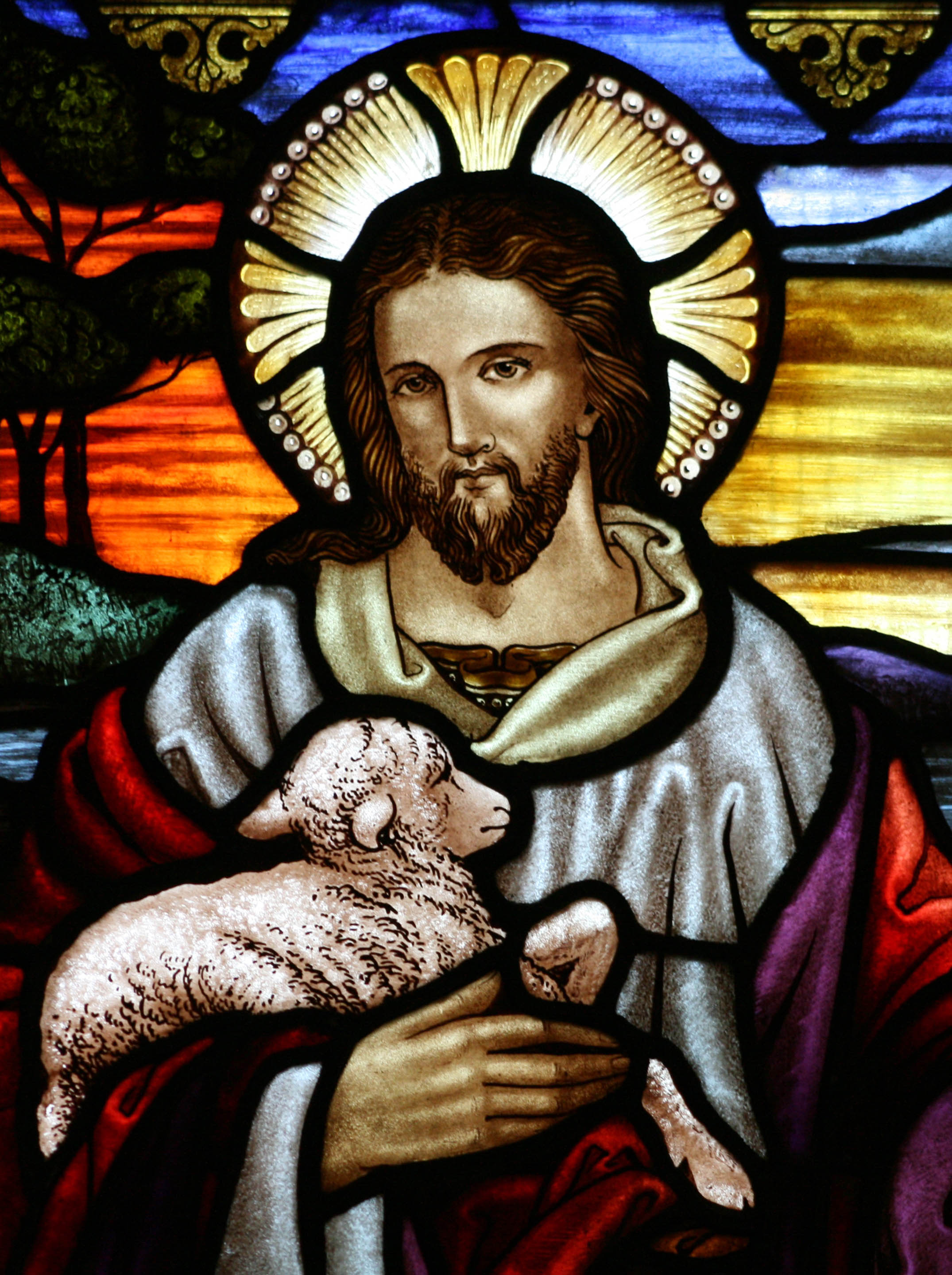 Stained glass at St John the Baptist's Anglican Church [1], Ashfield, New South Wales. Illustrates Jesus' description of himself "I am the Good Shepherd" (from the Gospel of John, chapter 10, verse 11). The memorial window is dedicated: "To the Glory of God and in Loving Memory of William Wright. Died 6th November, 1932. Aged 70 Yrs."